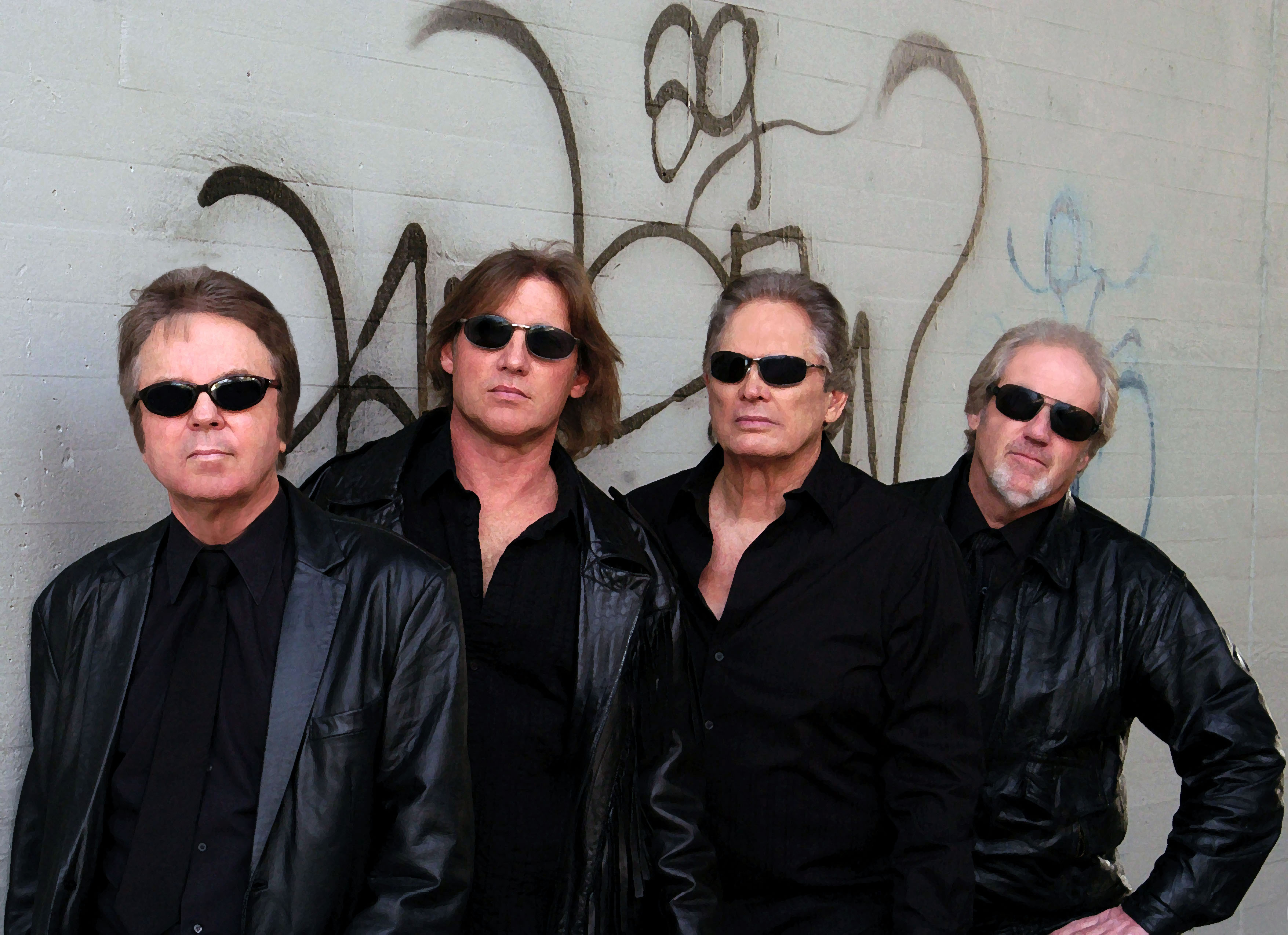 (L-R) Larry Tamblyn, Mark Adrian, John Fleck & Greg Burnham